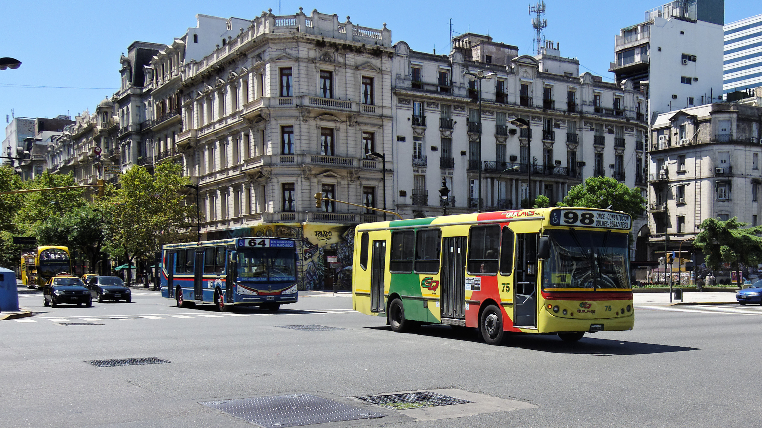 Bi-met Corwin bus (#75) with Mercedes-Benz chassis in Buenos Aires, Argentina. Colectivo, line 98, Expreso Quilmes S.A. operator.